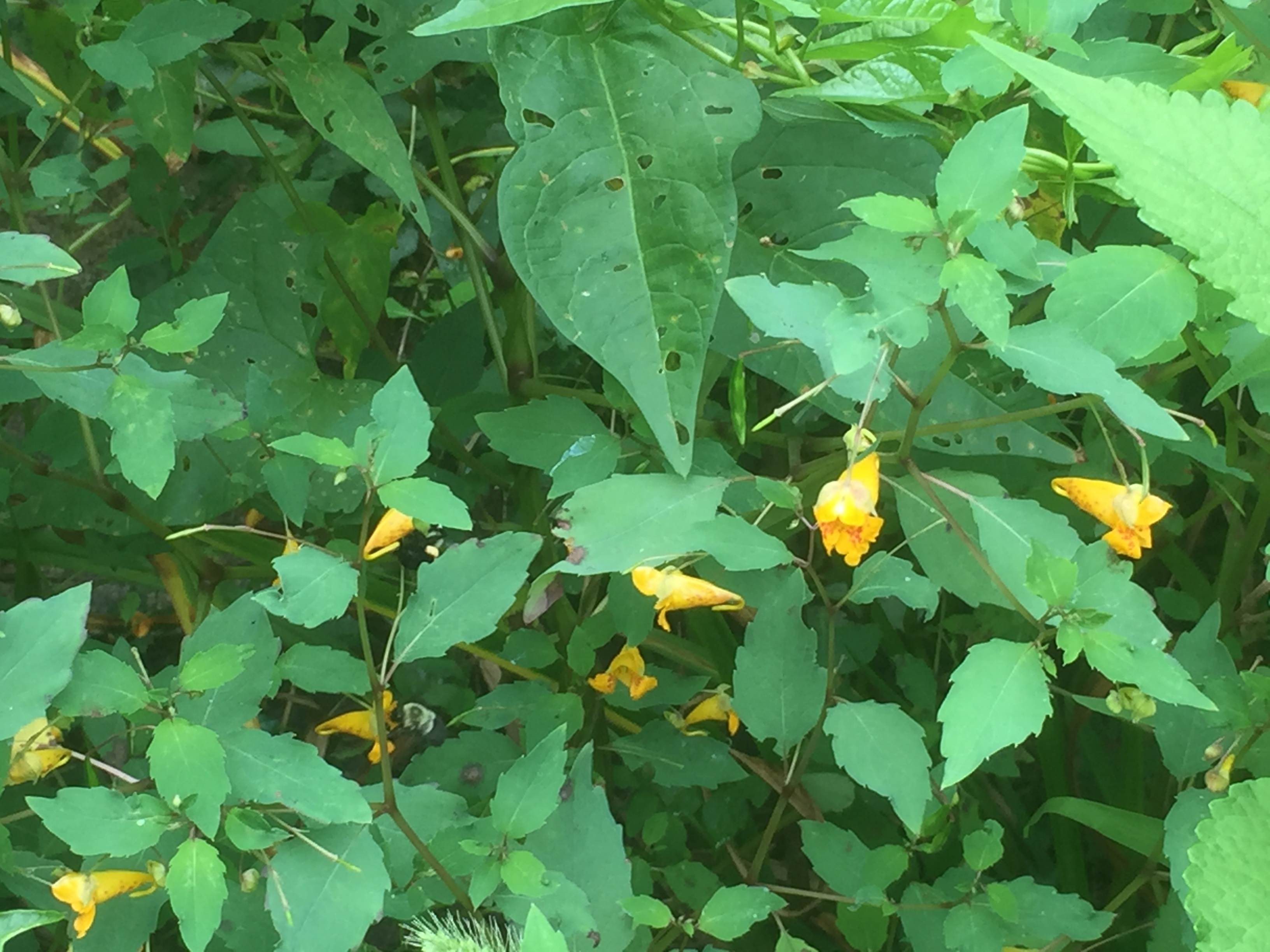 This picture documents a bumblebee feeding on jewelweed. Bumblebees buzz about the jewelweeds in my yard, and so I took a picture.